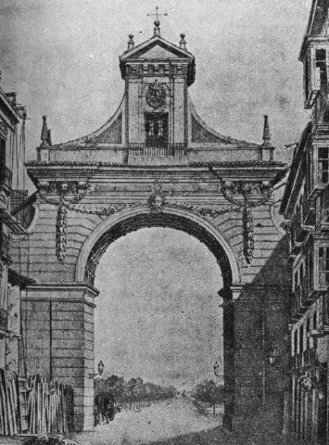 Puerta del Campo just before its tear down.